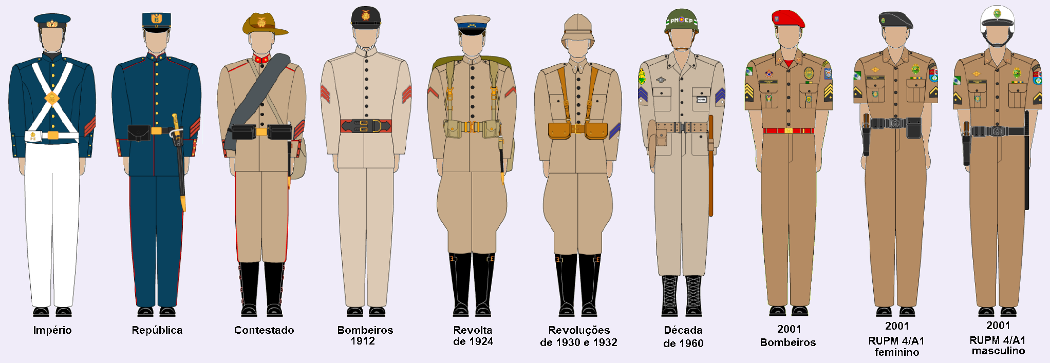 Uniforms of the Military Police of Parana (Brazil).